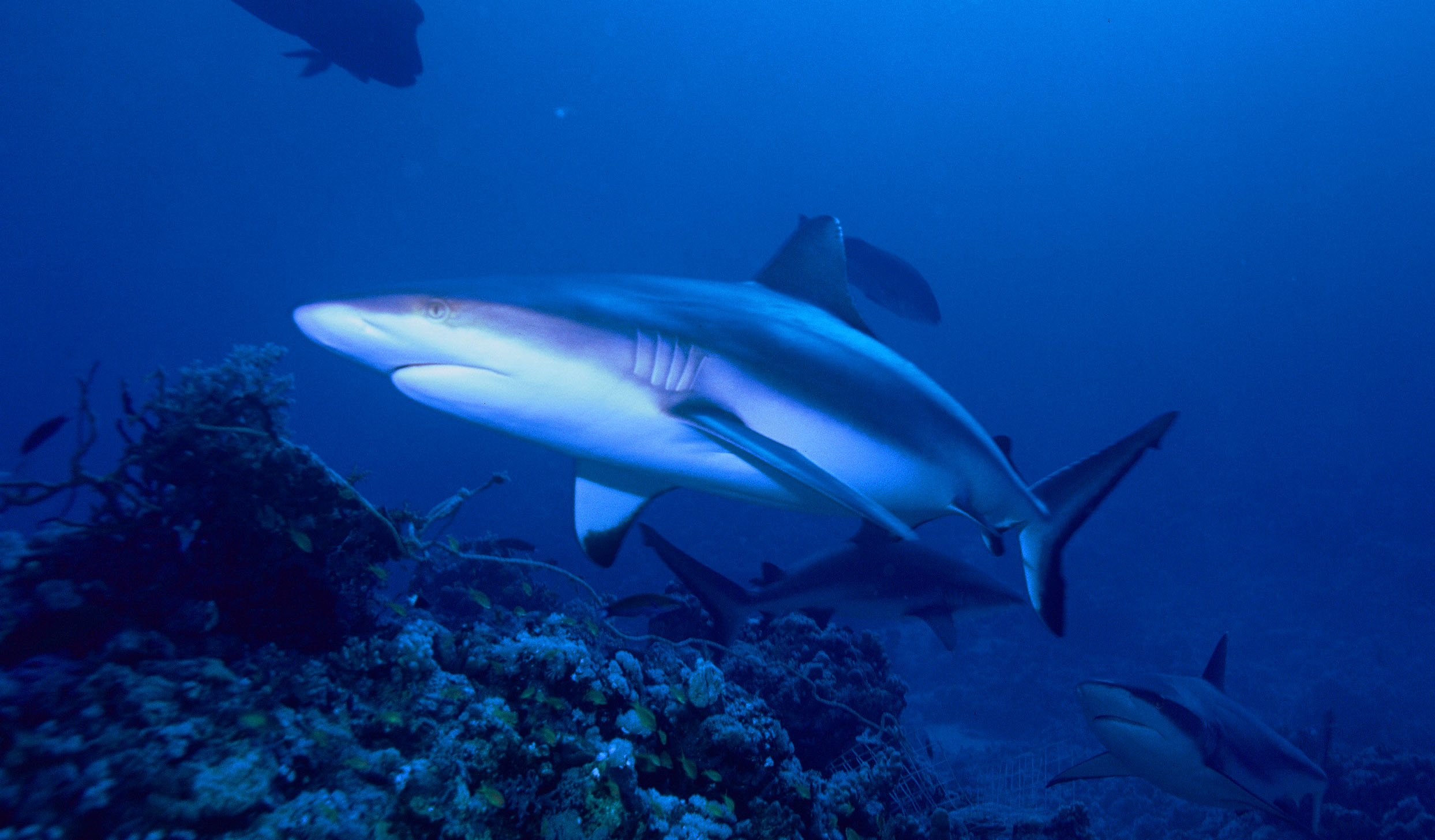 grey reef shark